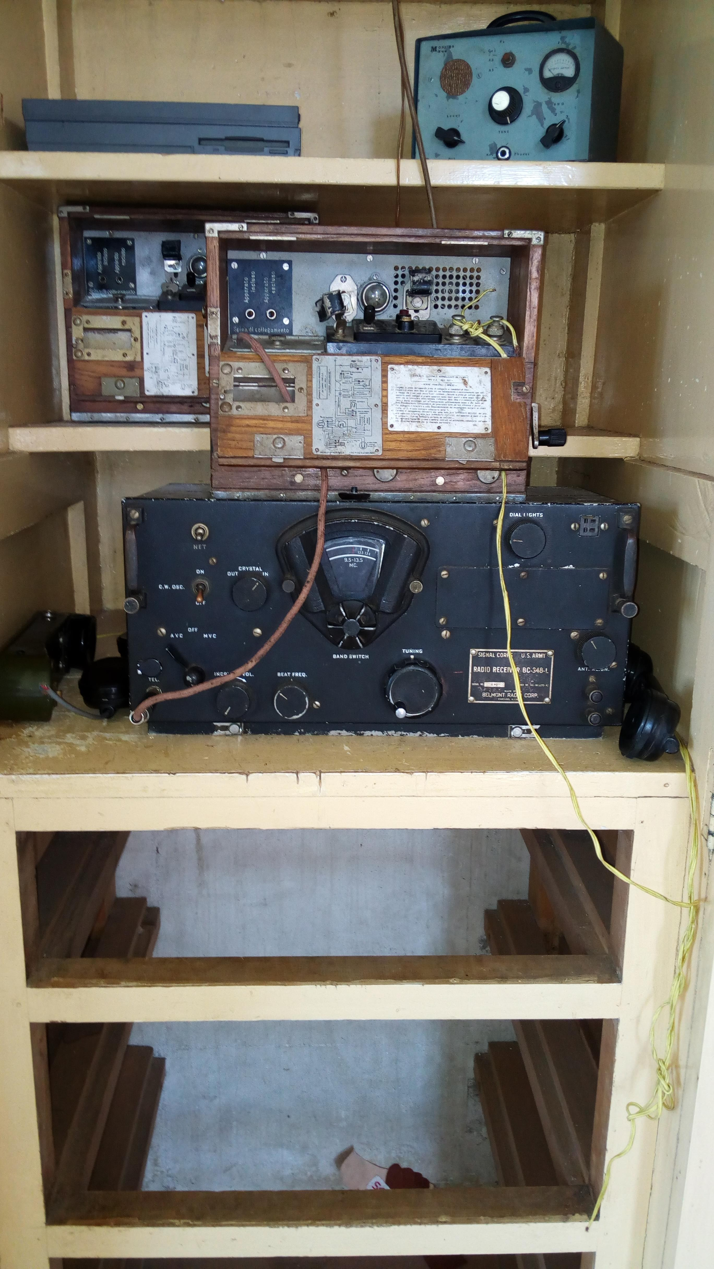 This is a picture of a communication device from the Lord Egerton era, dated back to the world war 2 period. It is currently a historical artifact. This is an image with the theme "Play" from: Kenya